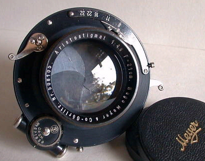 The Aristostigmat is a camera lens by German optics manufacturer Meyer-Optik, Goerlitz. The Aristostigmat is Meyer's highy successful version of the Gauss double objective. This one has a maximum aperture of 1:4.5 and a focal length of 210 mm, top view.